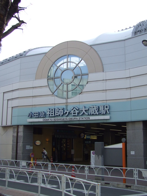 North building of Soshigayaokura station,OER-ODAWARA-LINE,Odakyu Electric Railwey,Japan